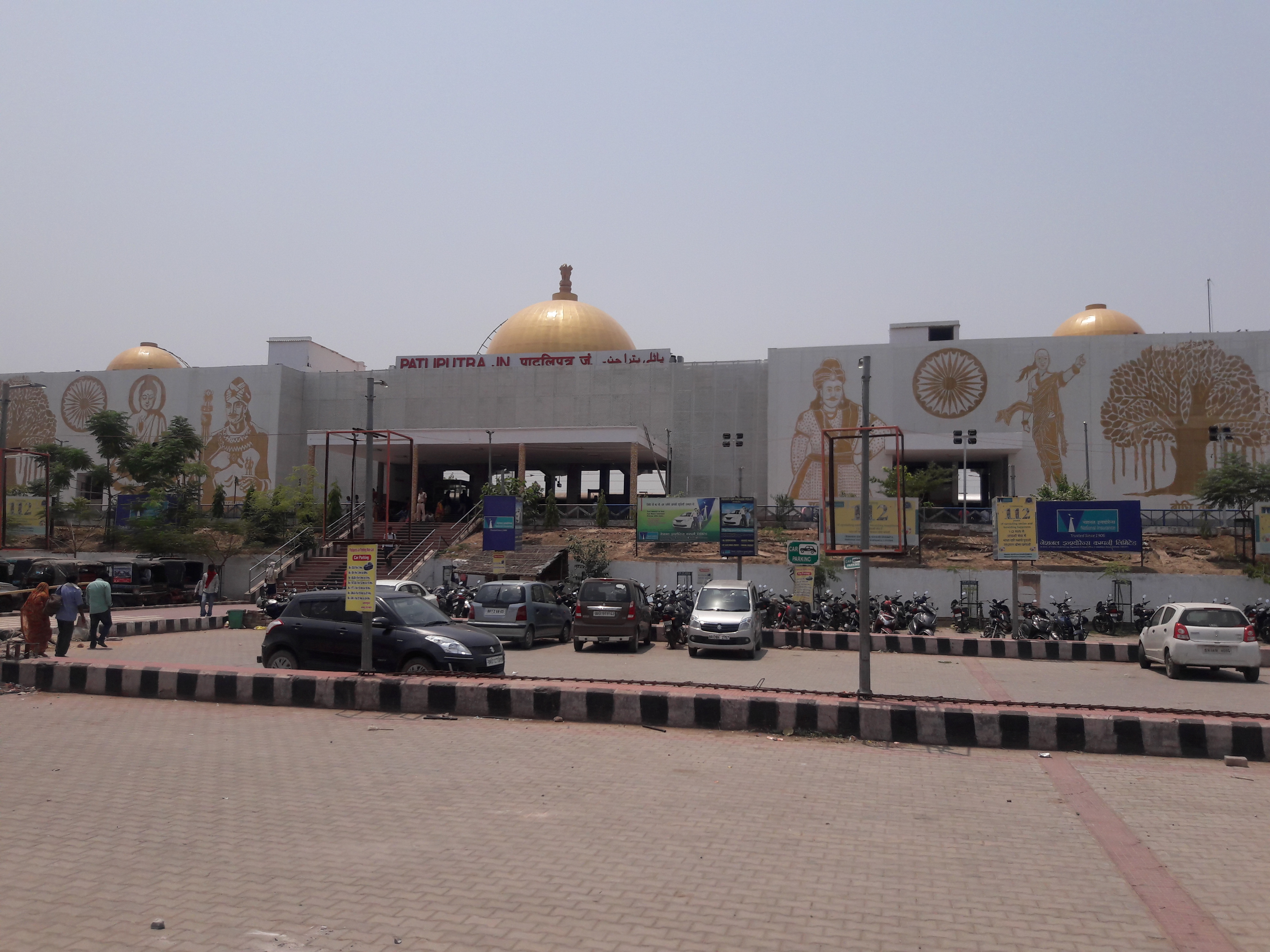 Patliputra junction front view